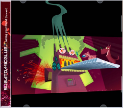 "Selling your friend for cash" album cover.